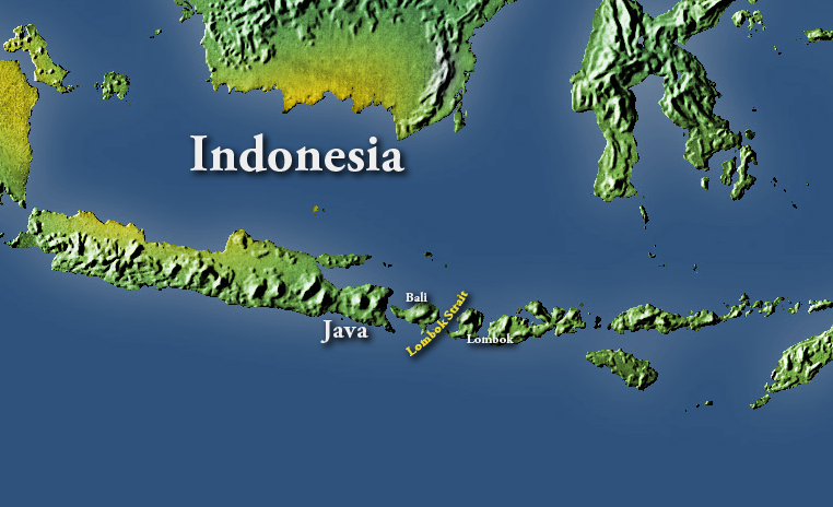 Map locating the Lombok Strait